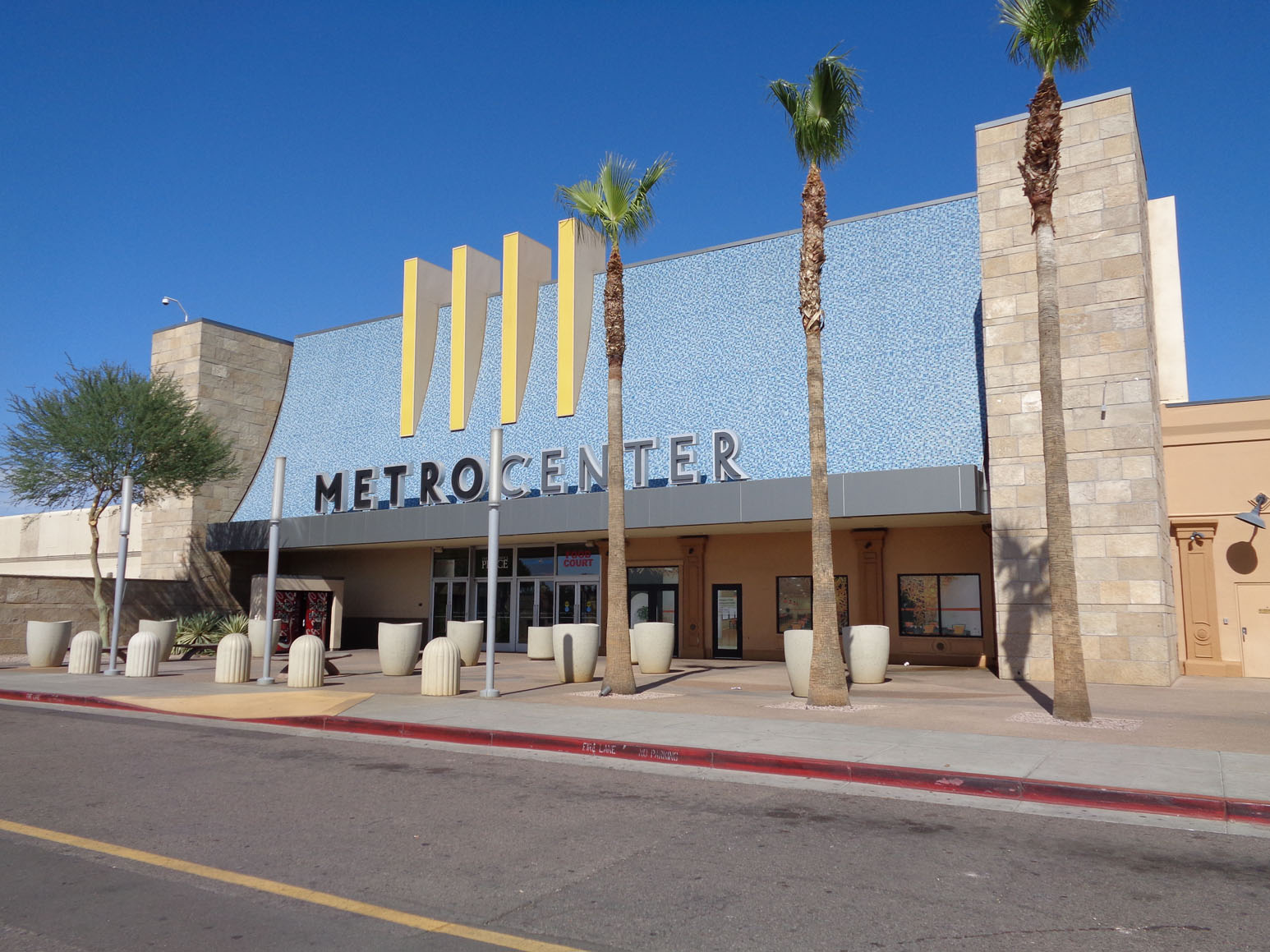 Metrocenter mall in Phoenix Arizona taken by me on 8/16/2017 west side entrance